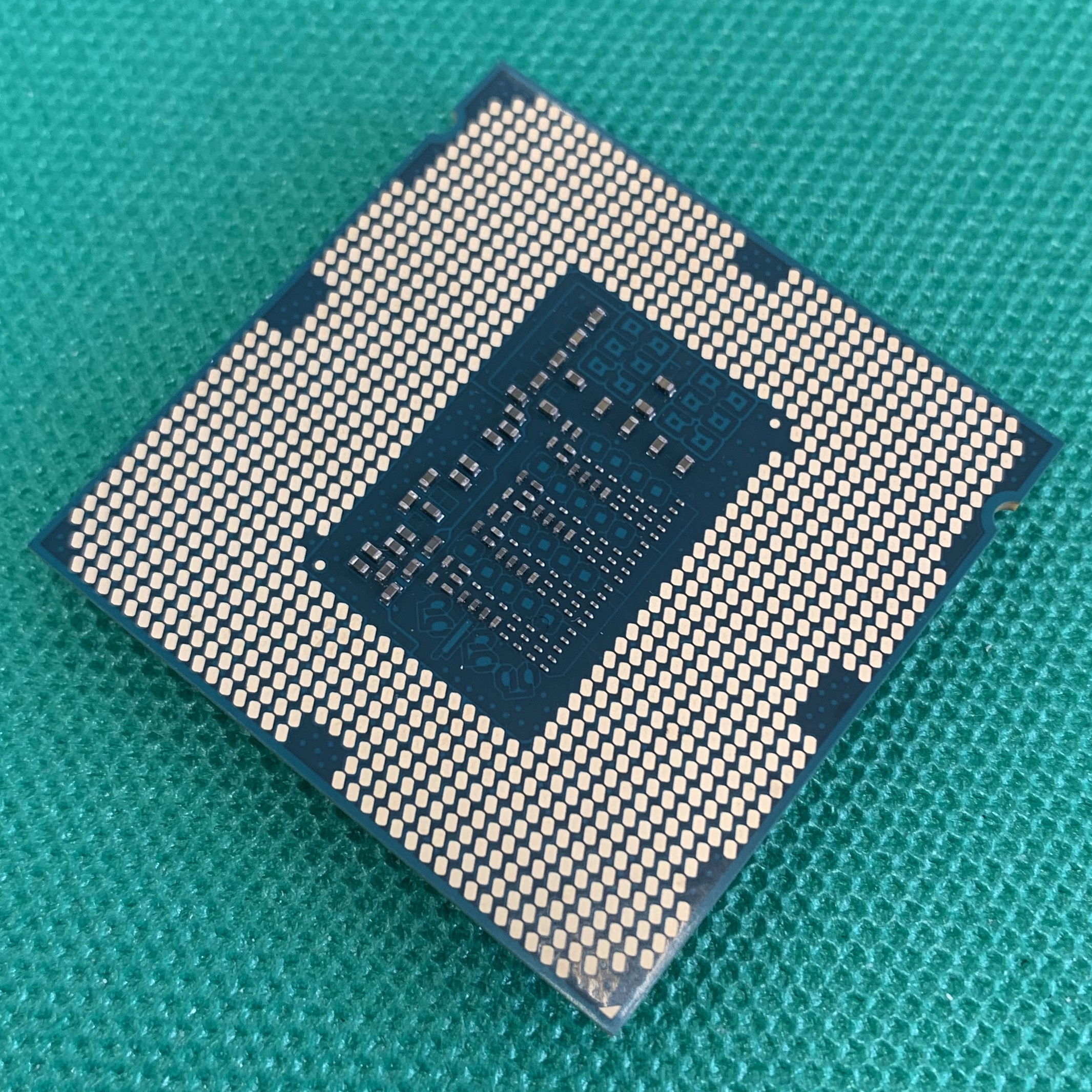 Intel Core i5-4590 Socket FCLGA1150